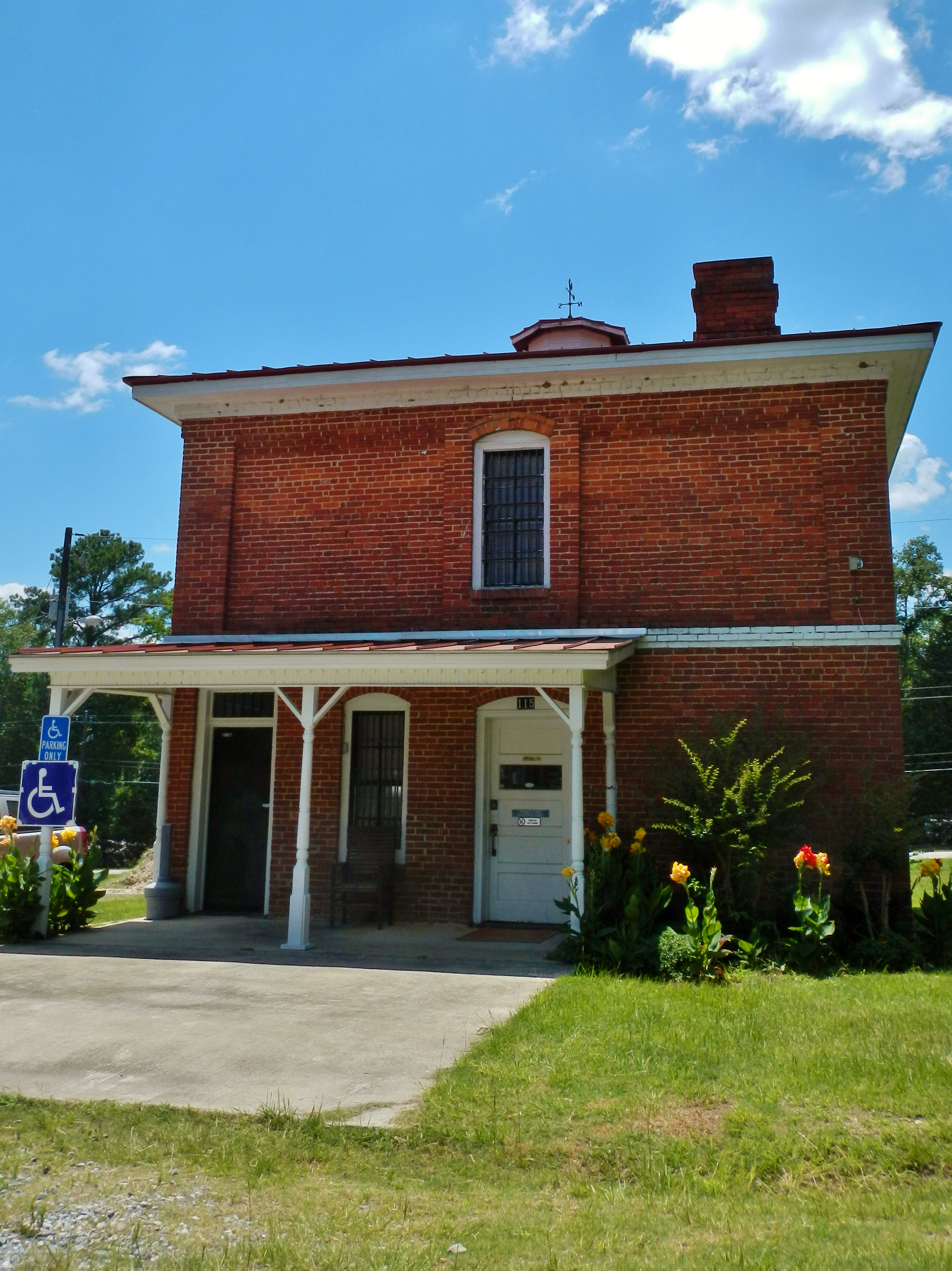 This is a photograph of the Quitman County Jail in Georgetown, GA. It was listed on the NRHP on August 13, 1981.